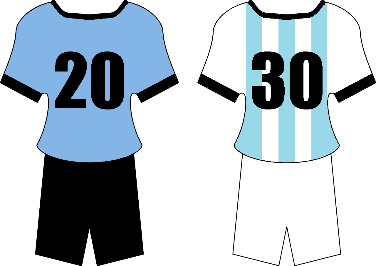 Uruguay-Argentina 2030 football kits